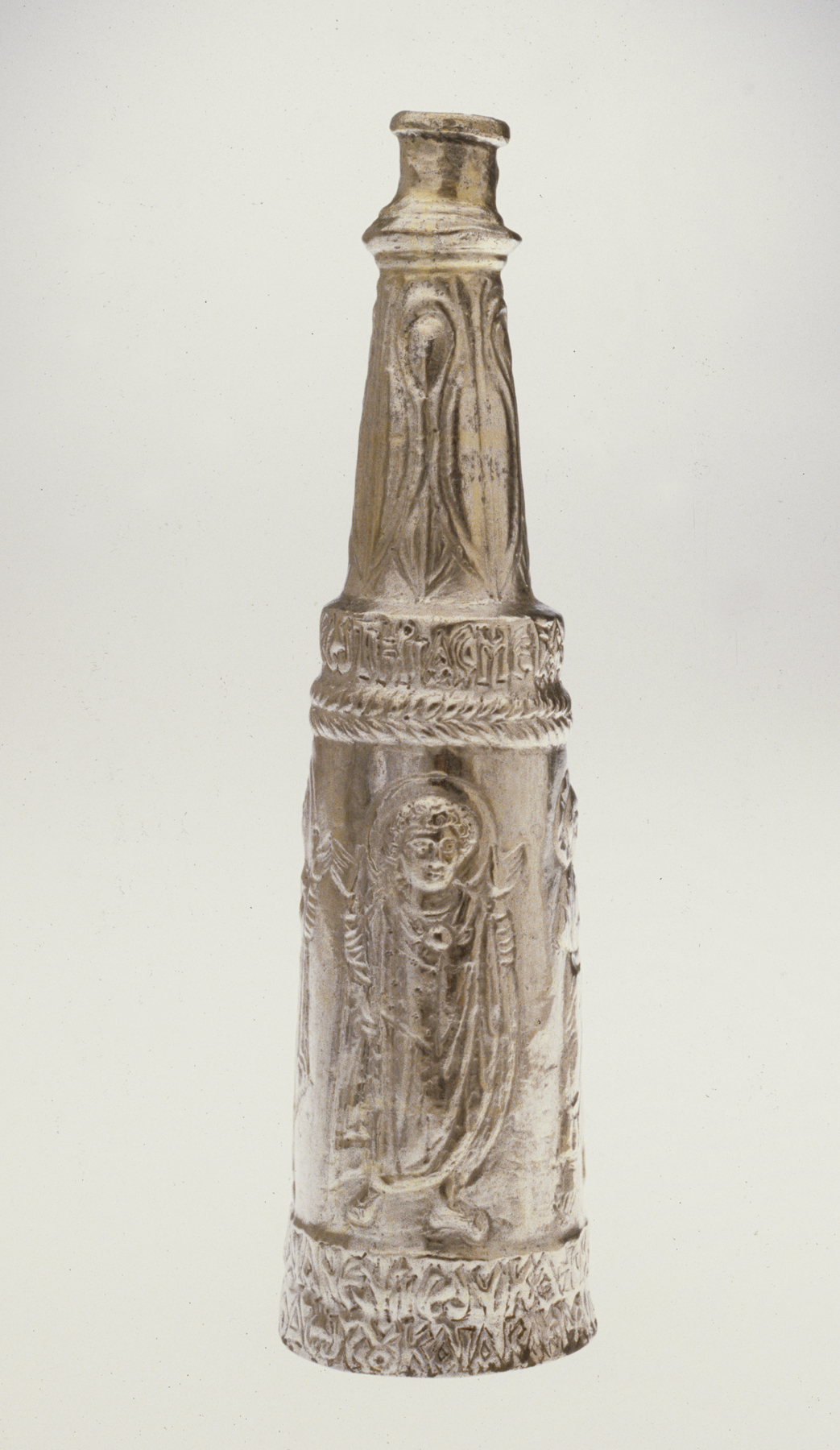 This flask is decorated with images of Christ, the Virgin, and two military saints (Sergios and Bacchos?), represented with the soft, voluminous drapery and staring eyes typical of the art of Byzantine Syria. The inscription tells how the donors, Megale and her family, gave this flask in fulfillment of a vow and for the eternal salvation of departed souls. The flask, the original lid and chain of which are now lost, was probably used to hold consecrated oil for the rite of baptism, or for the anointing of the sick or dying.